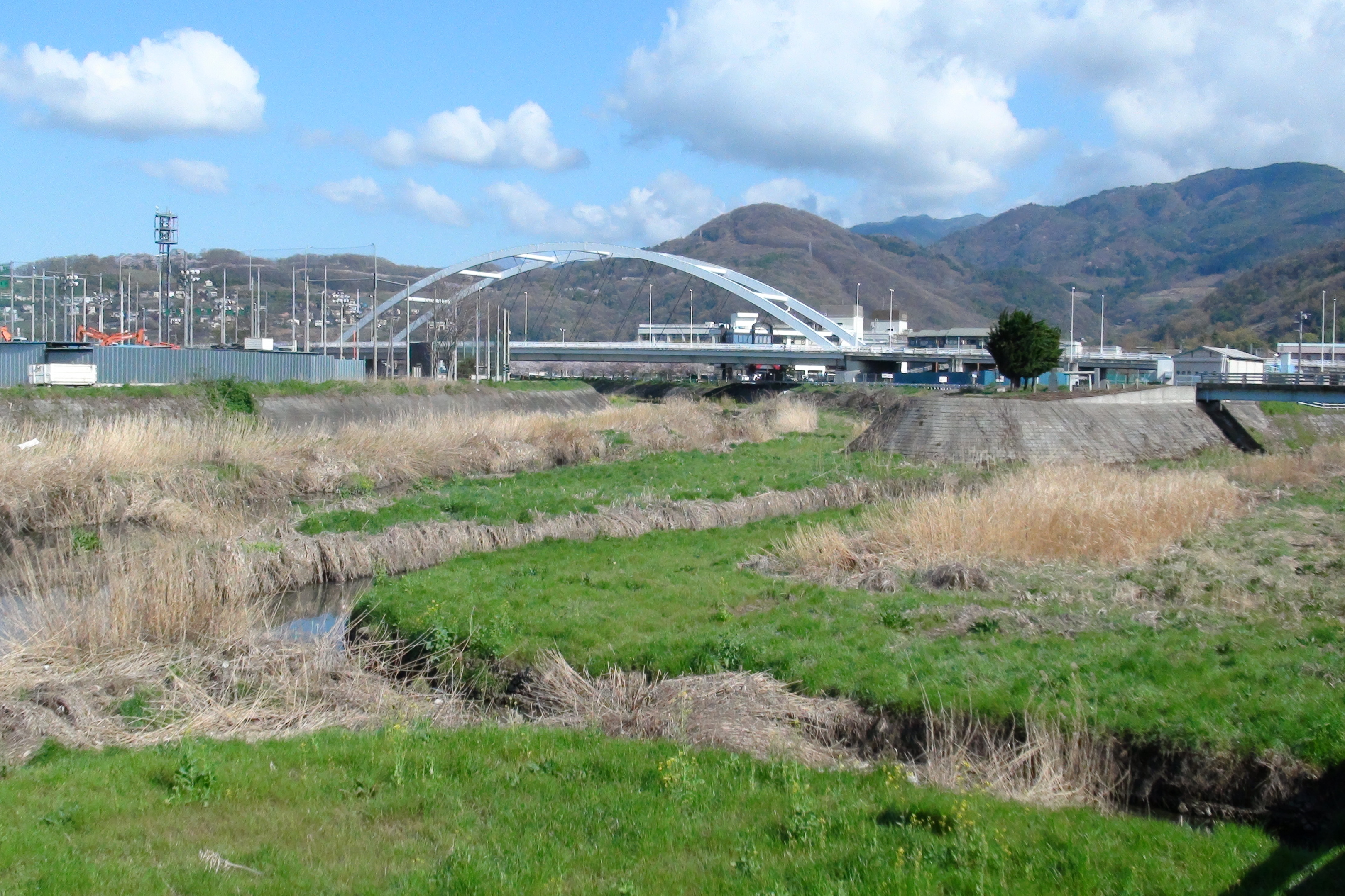 Kudamano-oohashi of legendary place of the fear